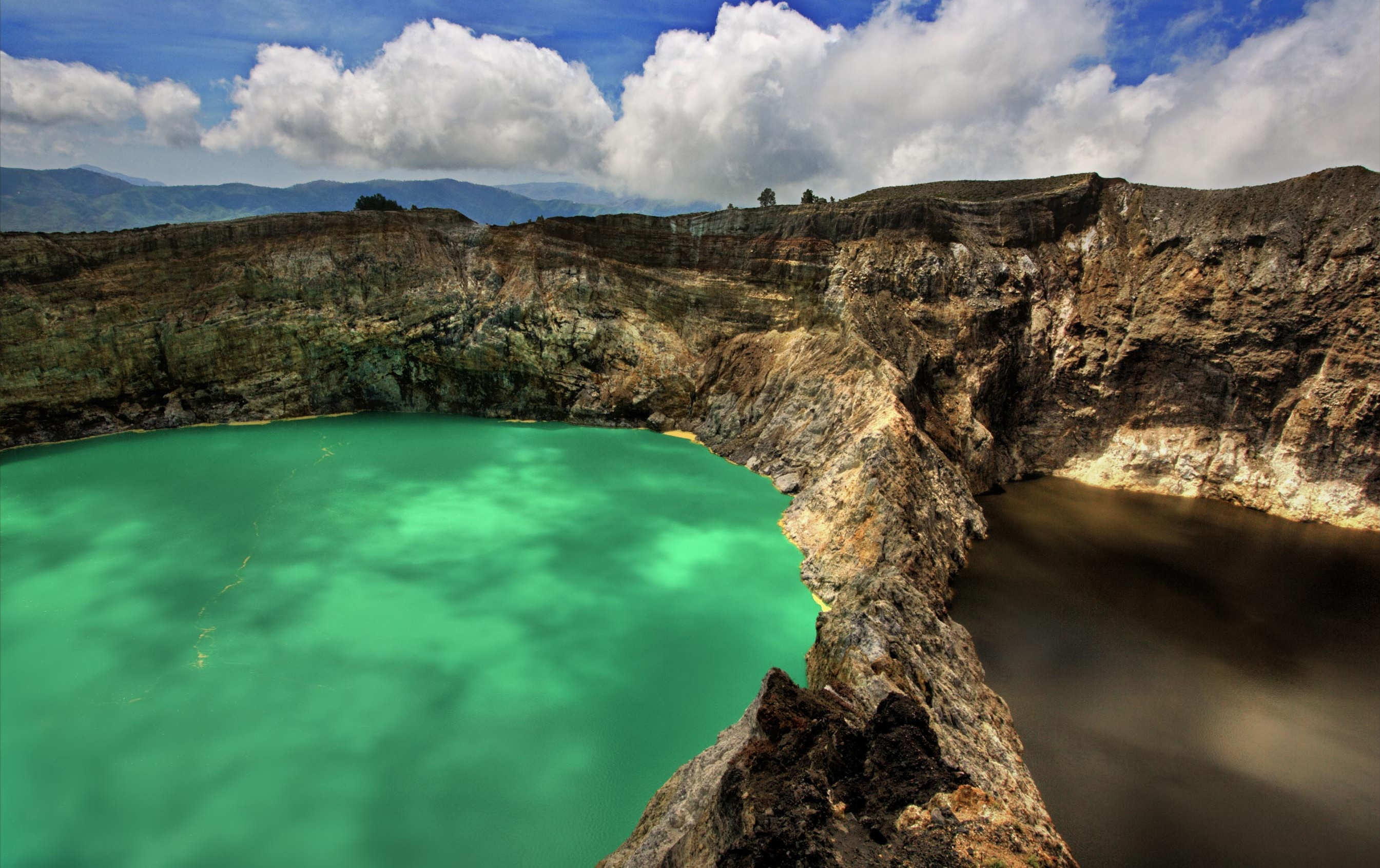 Kelimutu crater lakes, Flores Island, Indonesia